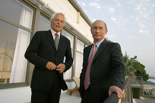 The interview of the Russian Prime Minister Vladimir Putin to the German ARD TV channel